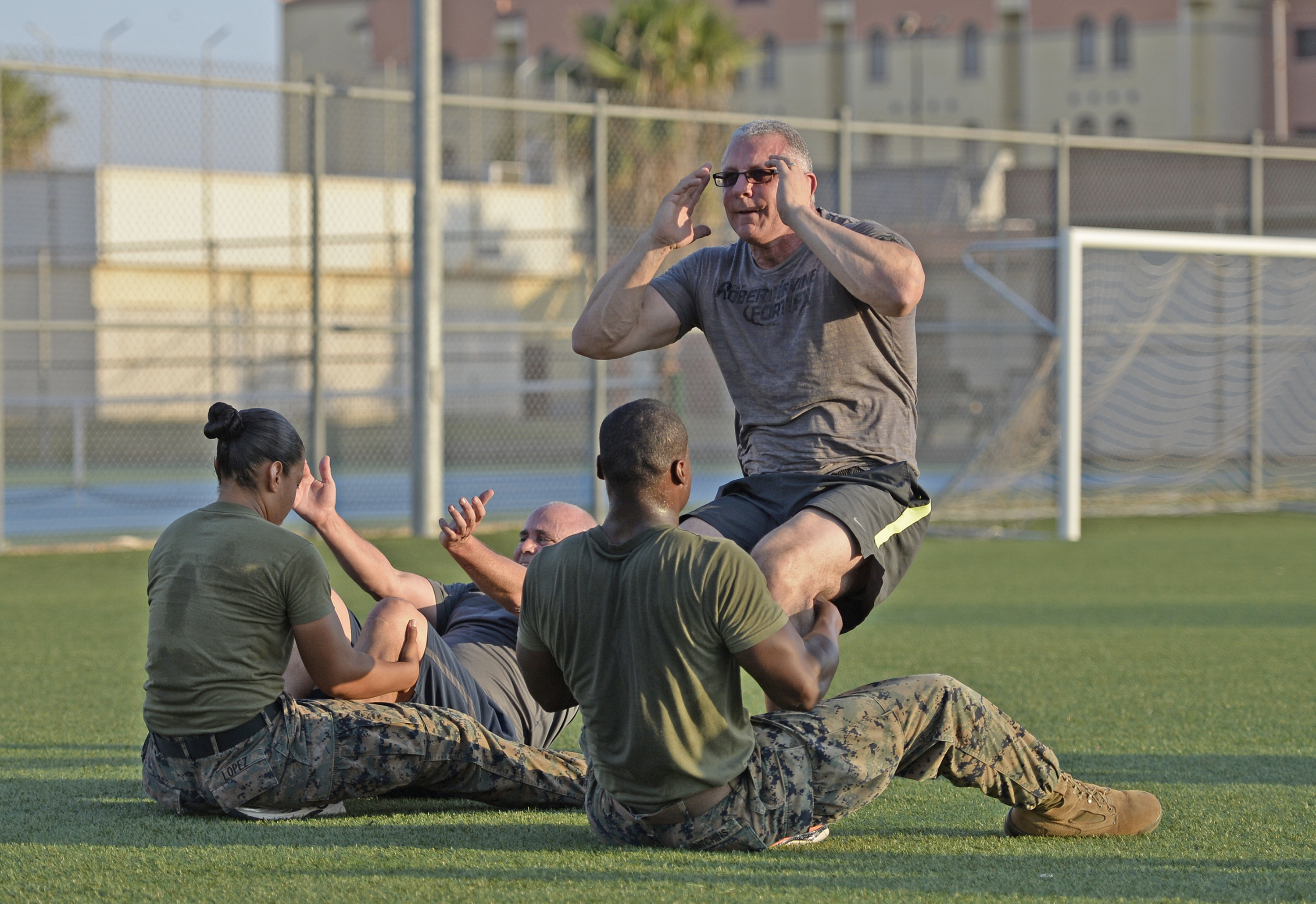 160728-N-GC965-408 NAS SIGONELLA, Sicily (July 28, 2016) Celebrity Chef Robert Irvine performs Chinese sit-ups during physical training with the Special Purpose Marine Air-Ground Task Force - Crisis Response - Africa at NAS 2 turf field, July 28. NAS Sigonella enables the forward operations and responsiveness of U.S. and allied forces in support of Navy Region Europe, Africa, Southwest Asia's mission to provide services to the Fleet, Fighter, and Family. (U.S. Navy photo by Mass Communication Specialist 2nd Class Ramon Go/Released) Unit: Navy Media Content Services DVIDS Tags: NMCS; DVIDS Bulk Import